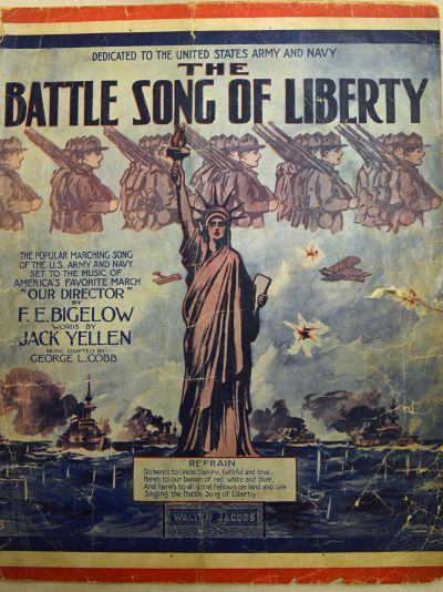 Cover Art